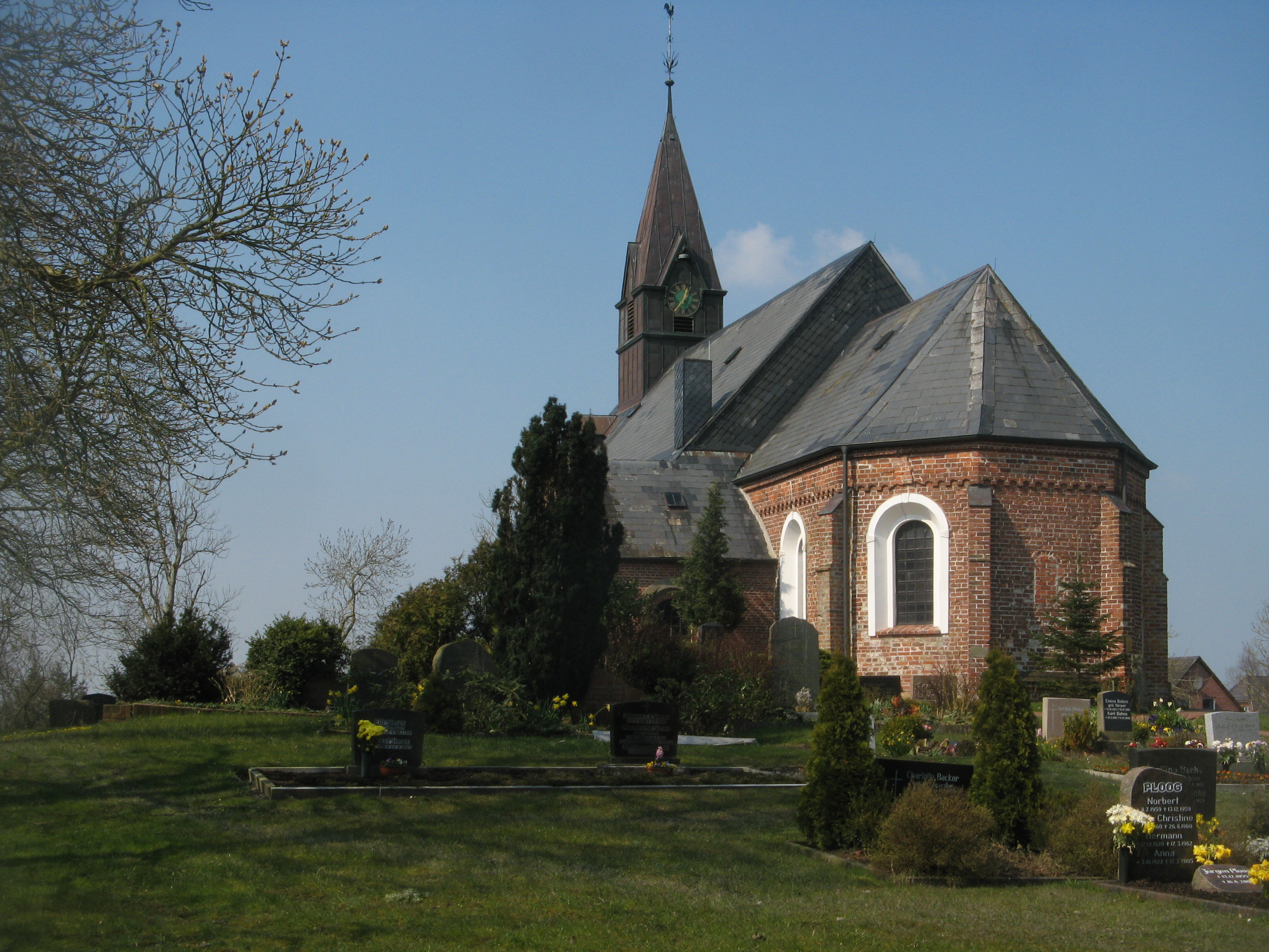 Church in Poppenbüll, North Frisia, Germany